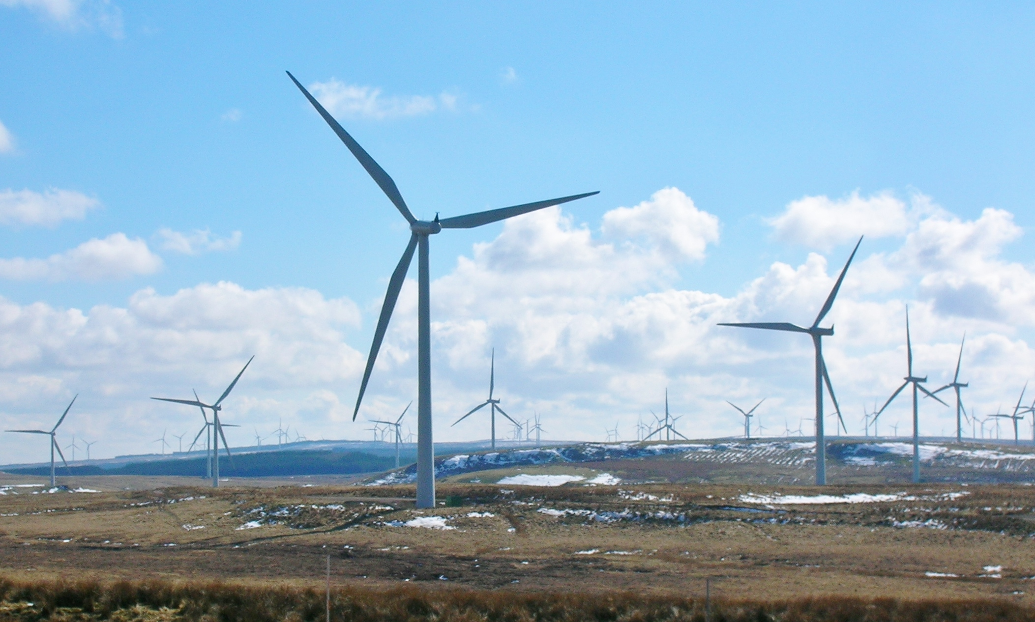 Whitelee wind turbine farm, Eaglesham, East Renfrewshire, Scotland.